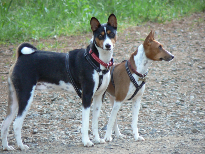 Two Basenjis.